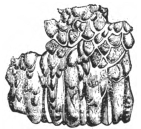 The Eurypterida of New York. Volume 1. New York State Museum Memoir 14, figure 48